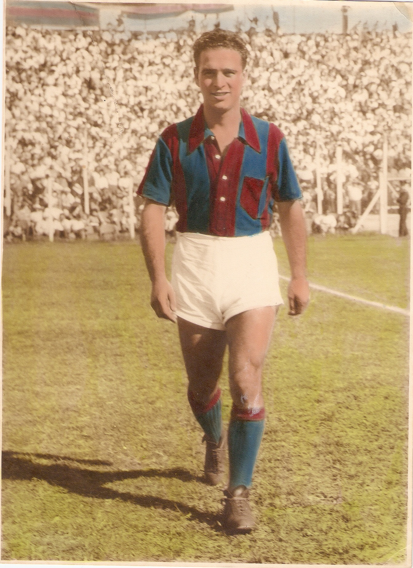 Ubaldo Faina, Club Atlético San Lorenzo de Almagro.